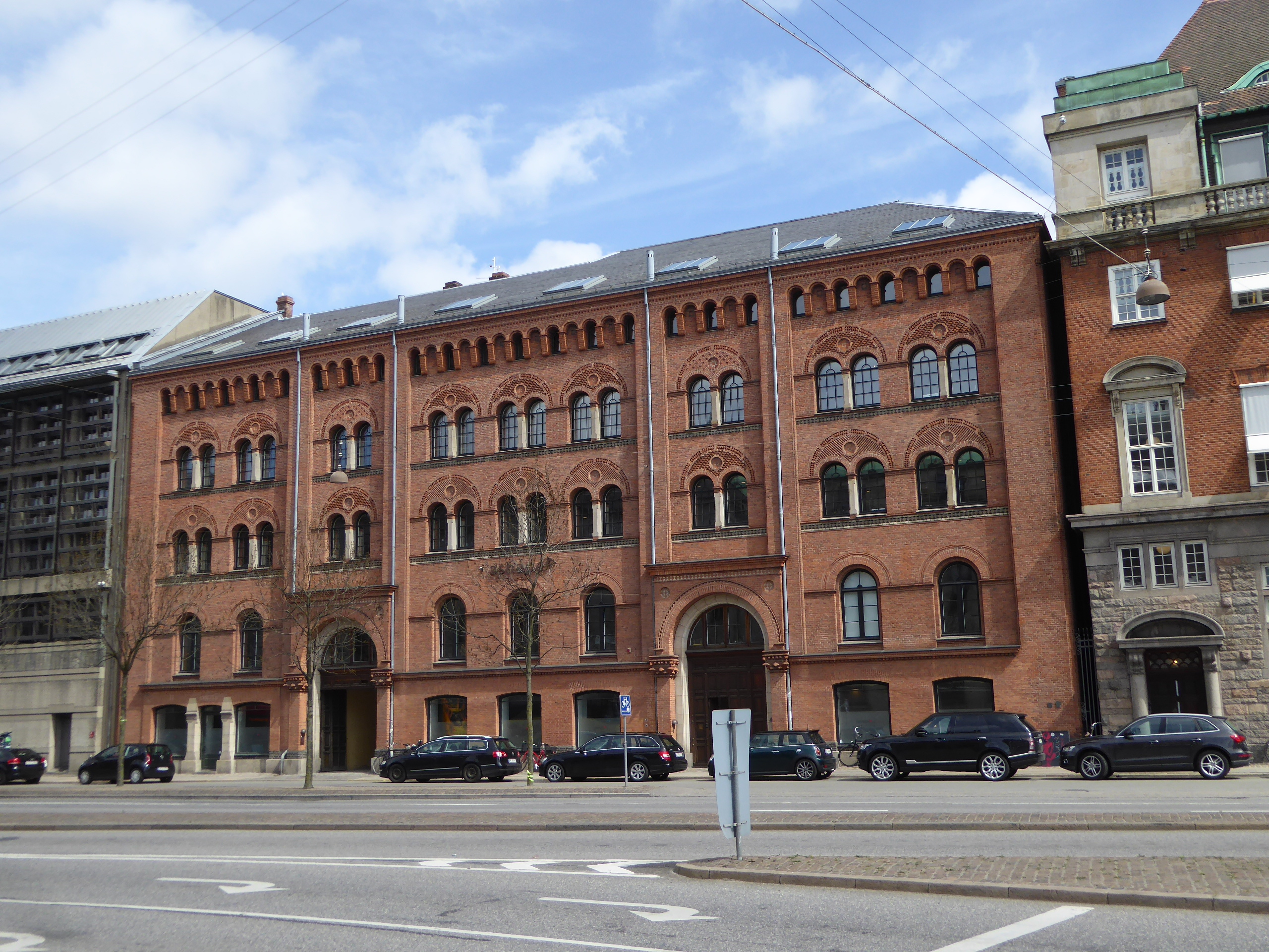 Office building at Holmens Kanal in Indre By in Copenhagen.